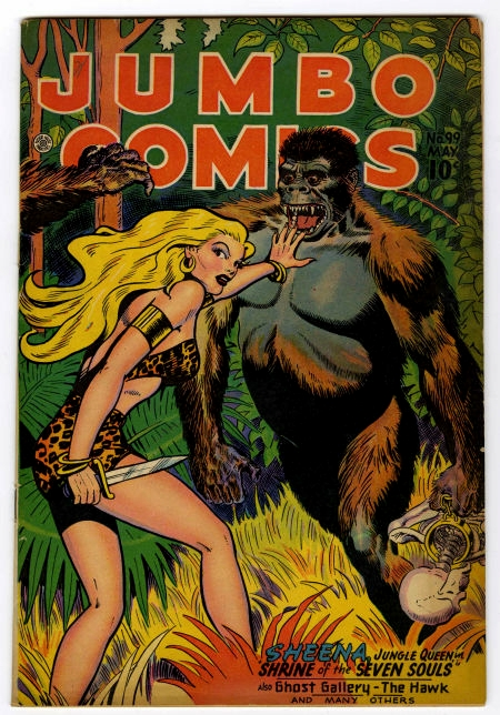 Cover scan of Jumbo Comics #99, Fiction House.